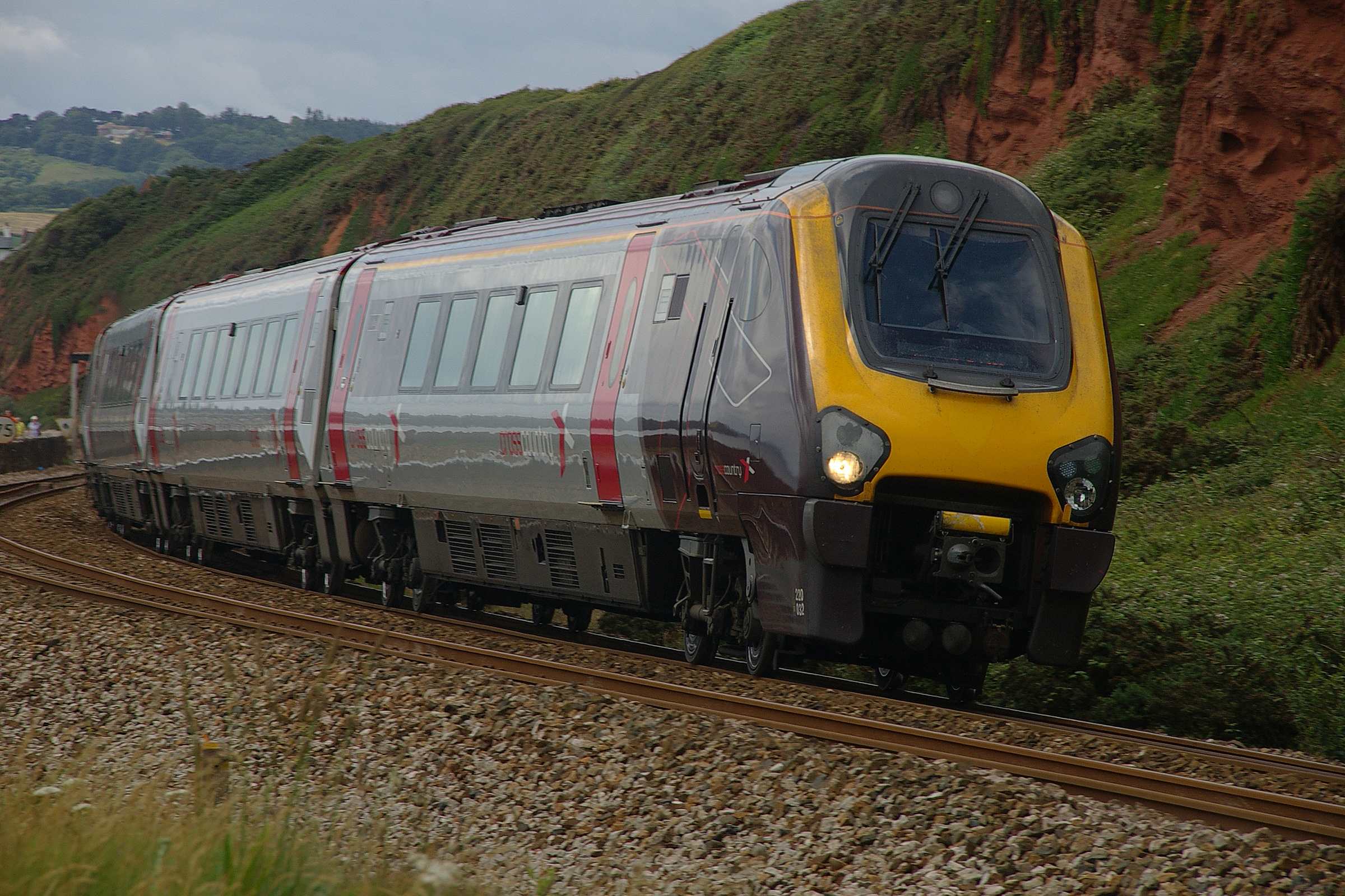 Cross Country 220032 rounds the bend at Langstone Rock near Dawlish, headed north.